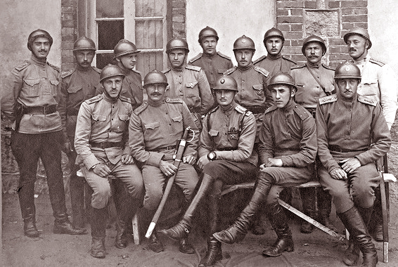 Second Lieutenant Pavel I. Voskresensky (second on the right in the front row), 1916